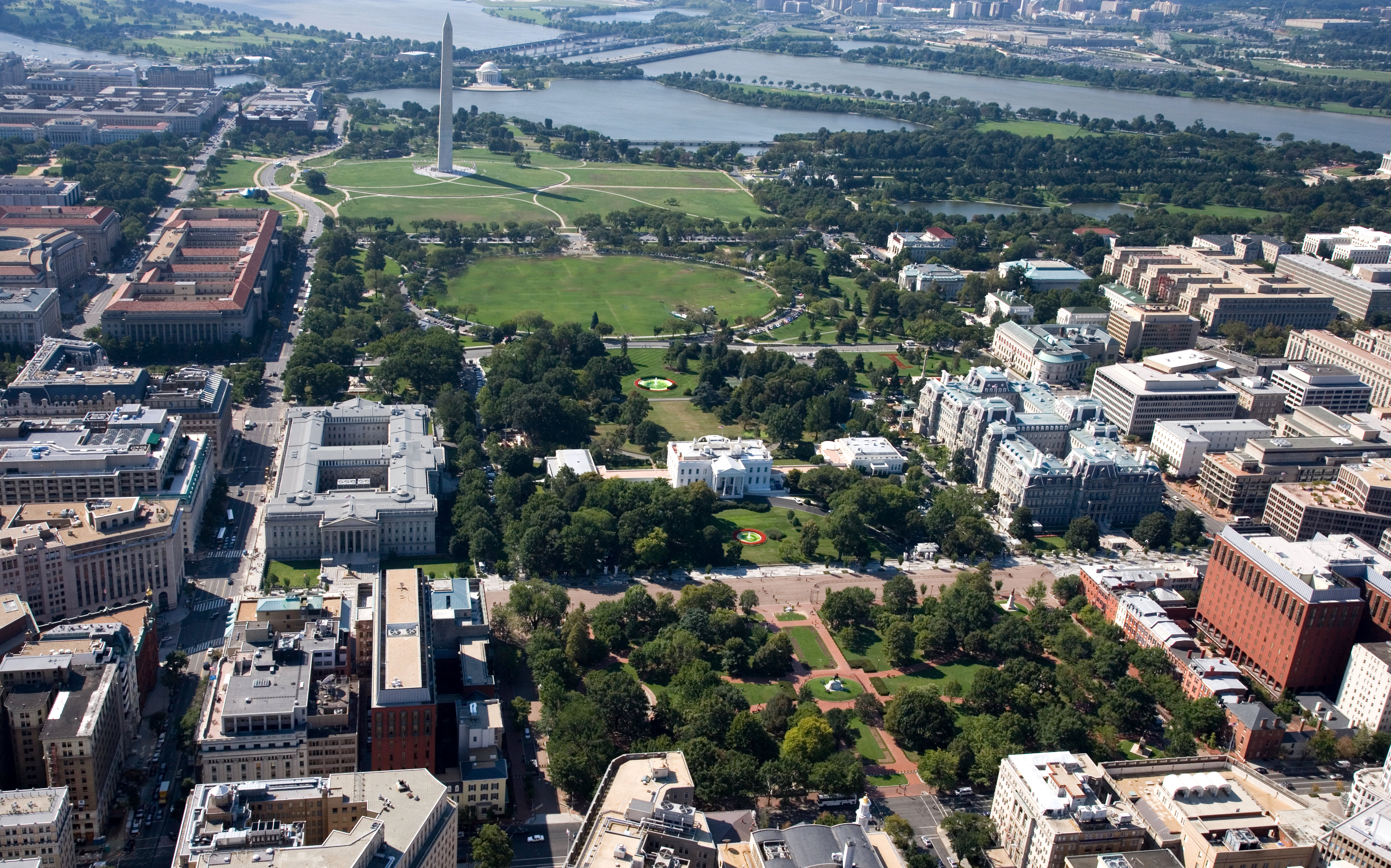 Aerial view of President's Park in Washington, D.C. encompassing Lafayette Square (foreground), the White House, and the Ellipse (background).